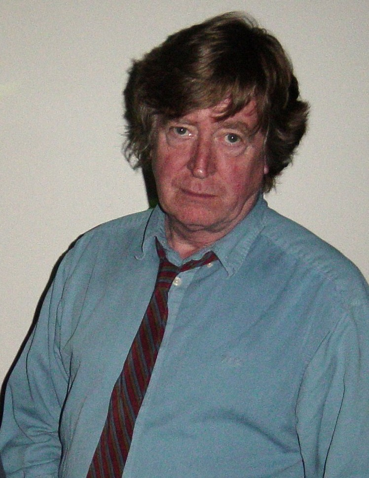 David Collings (aka the voice of Monkey!) at one of the dubbing sessions for the "previously undubbed" episodes.